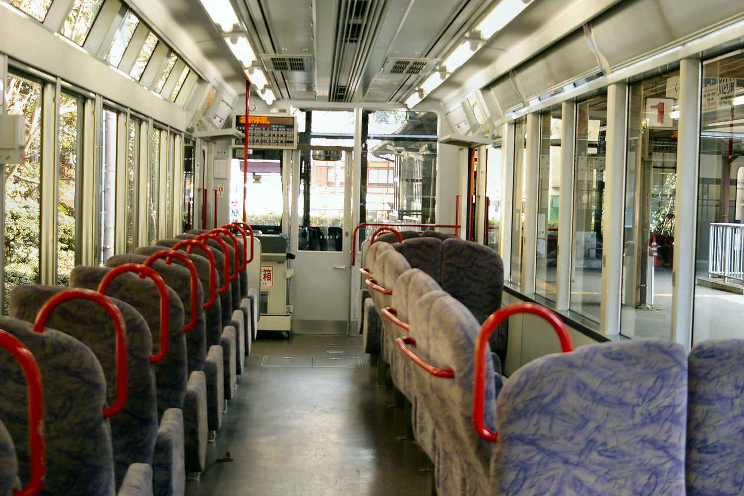 Inside Eizan Electric Railway Type Deo 900 vewing from the gangway to the cabin